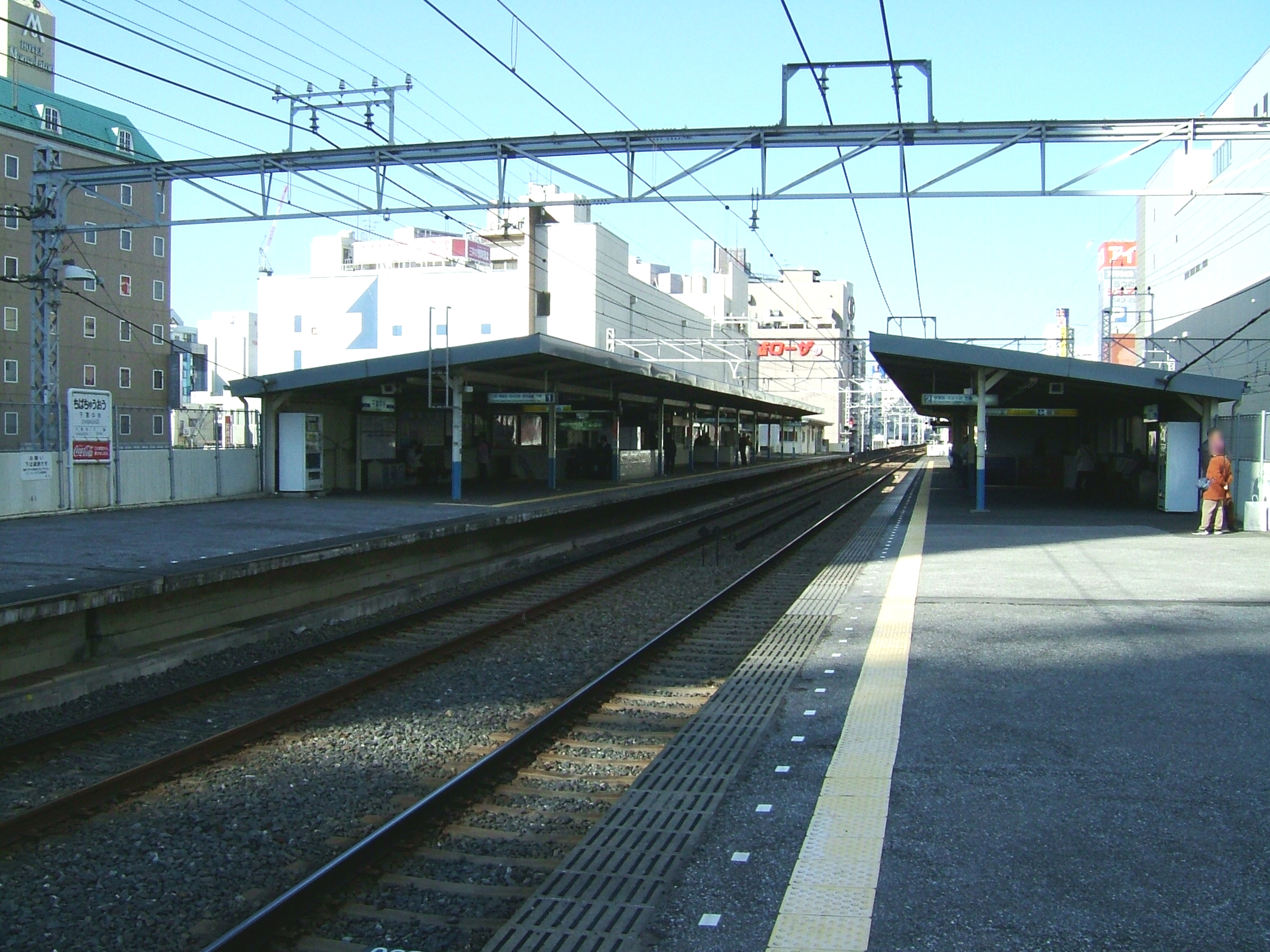 The platforms at Chiba-Chūō Station on the Keisei Chiba Line in Chiba city, Chiba prefecture, Japan